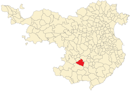 Brunyola